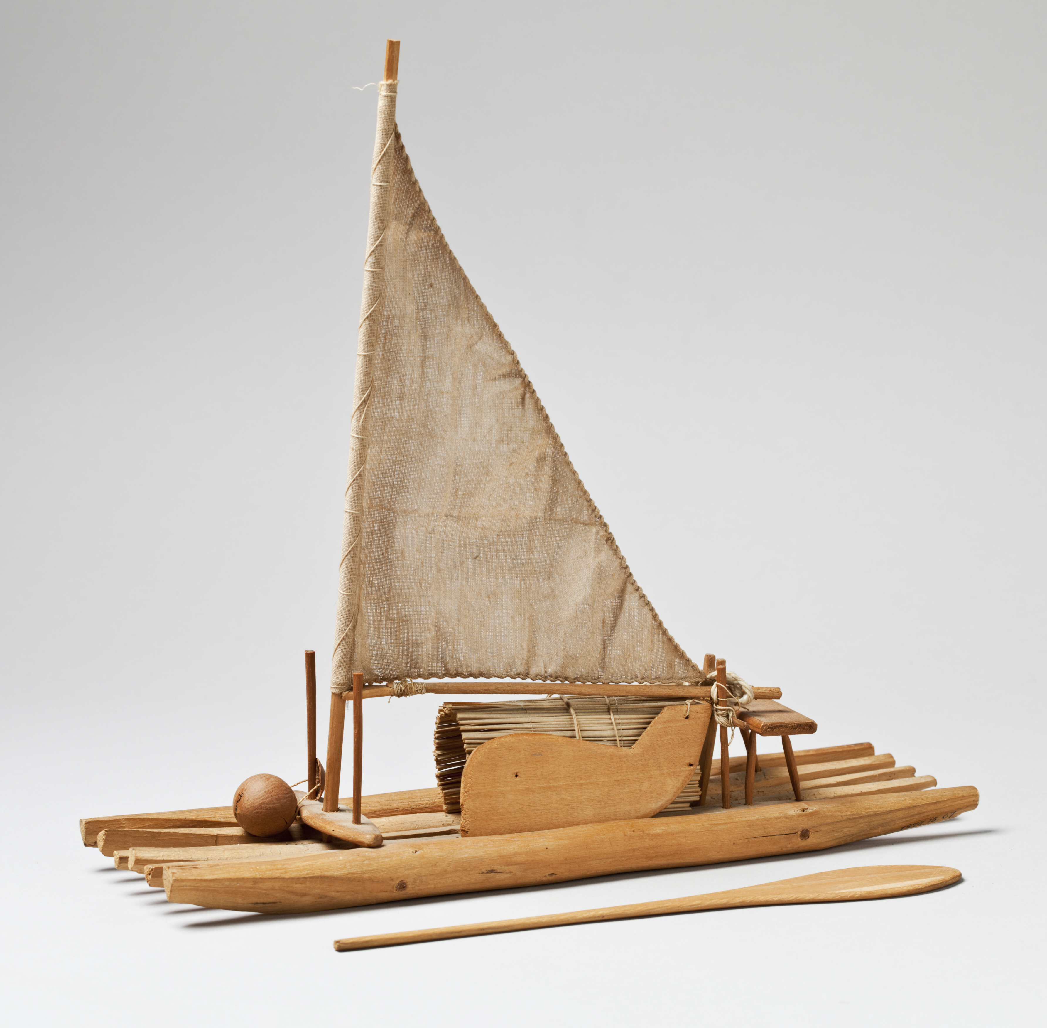 Boat model from Chile.